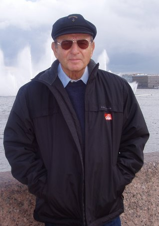 Greek writer, Giorgos Leonardos